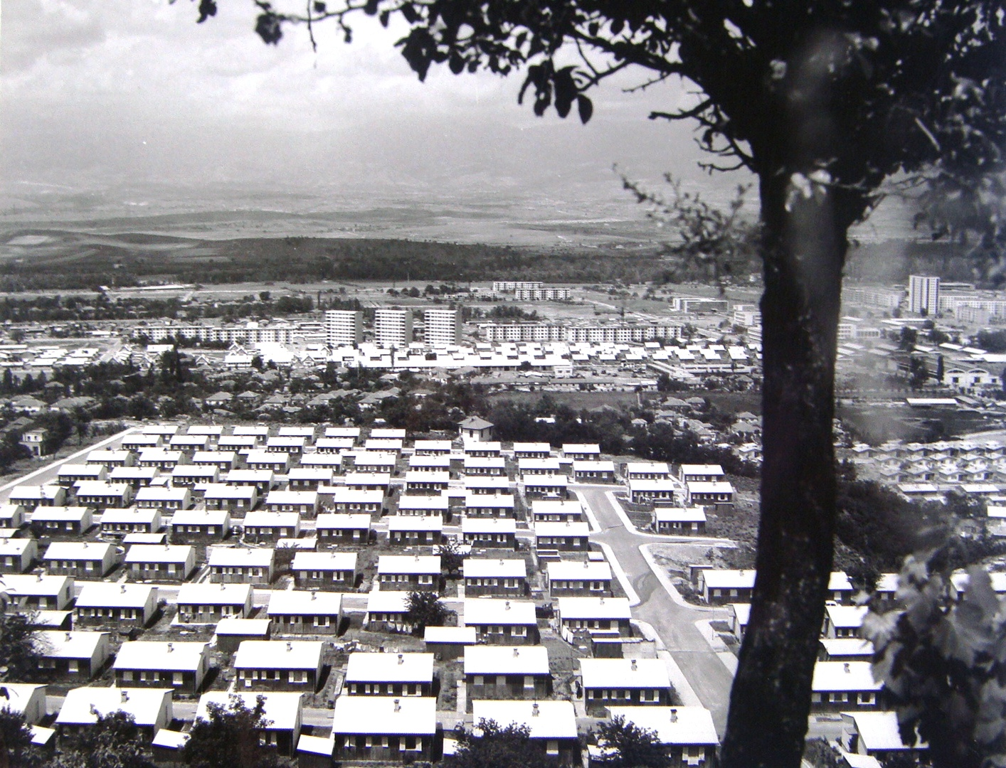 1963 Skopje earthquake: Trnodol settlement, with a view to the Taftalidze, 1964, a gift from the International religious organization. Opening ceremony was on April 23, 1964. This media file is produced by Wikipedian in Residence in Category:Wikipedian in Residence at DARM in 2016.